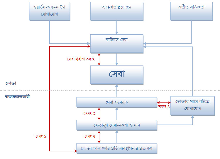 Gap model of Service Quality.